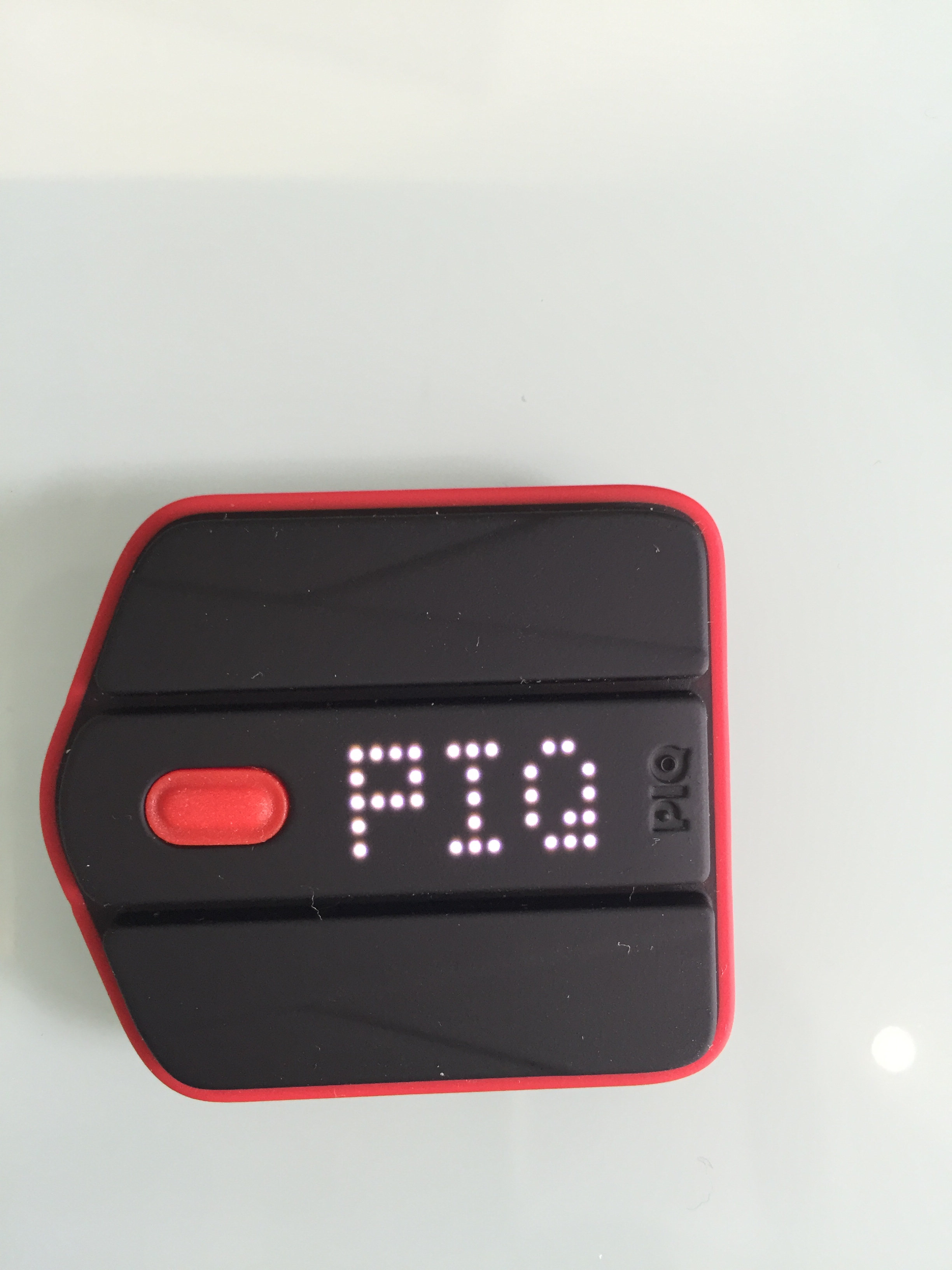 Connected Sport sensor from PIQ